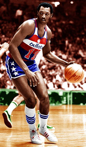 Professional basketball player Elvin Hayes